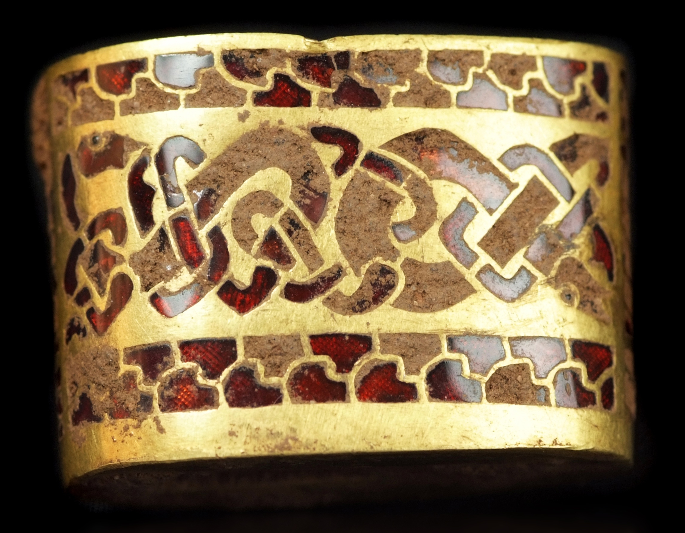 Hilt Fitting Press quality photo Finds number NLM 449 Photo by Daniel Buxton, Birmingham Museum and Art Gallery